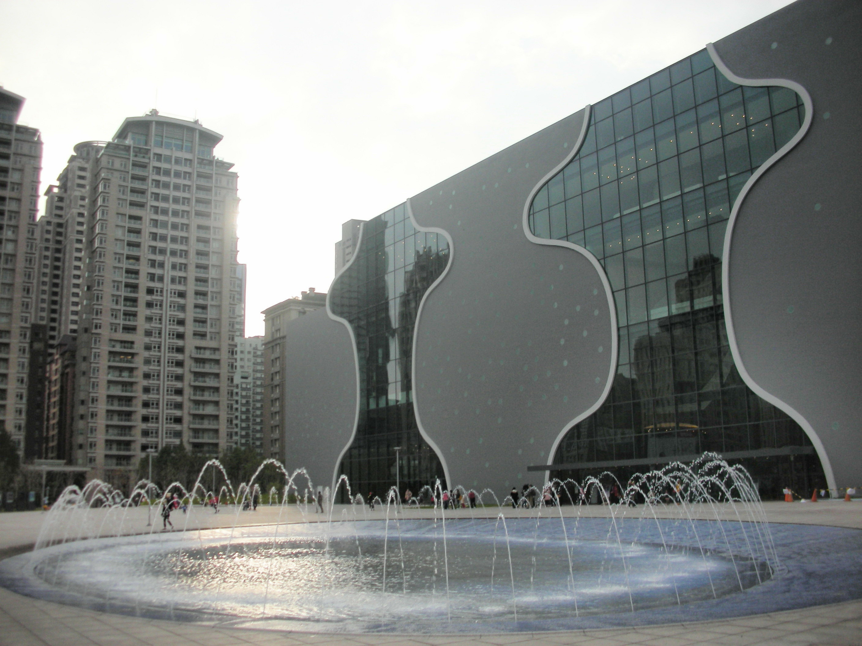 臺中國家歌劇院 National Taichung Oprea House